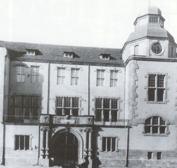 Historic photograph of Commercial College (1904), source caption: "Trade School, 1904., Architect G. Ter-Mikelyan"